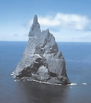 Aerial view of Ball’s Pyramid, Lord Howe Island Group, NSW, Australia